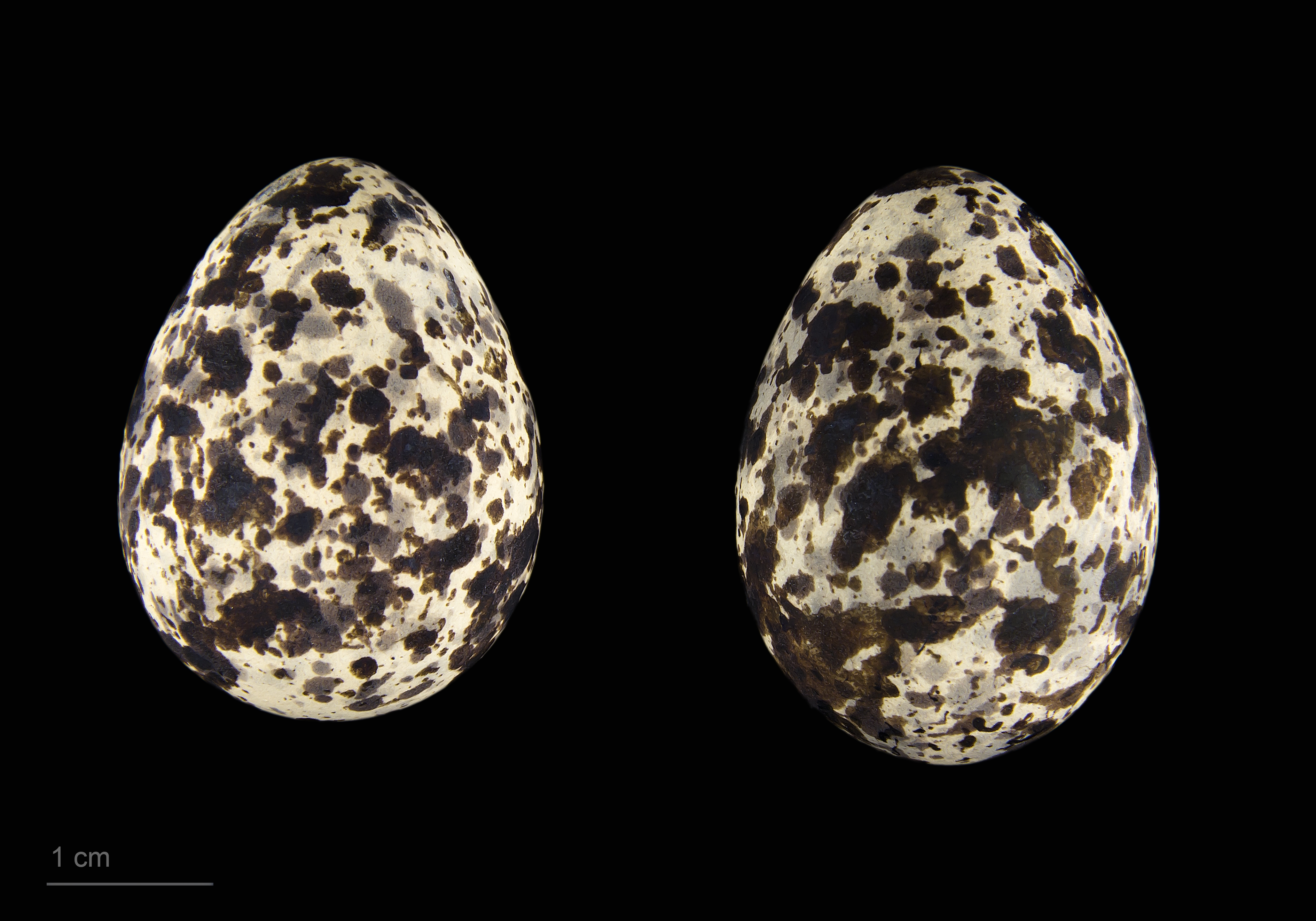 Egg of collared pratincole collection of Jacques Perrin de Brichambaut.